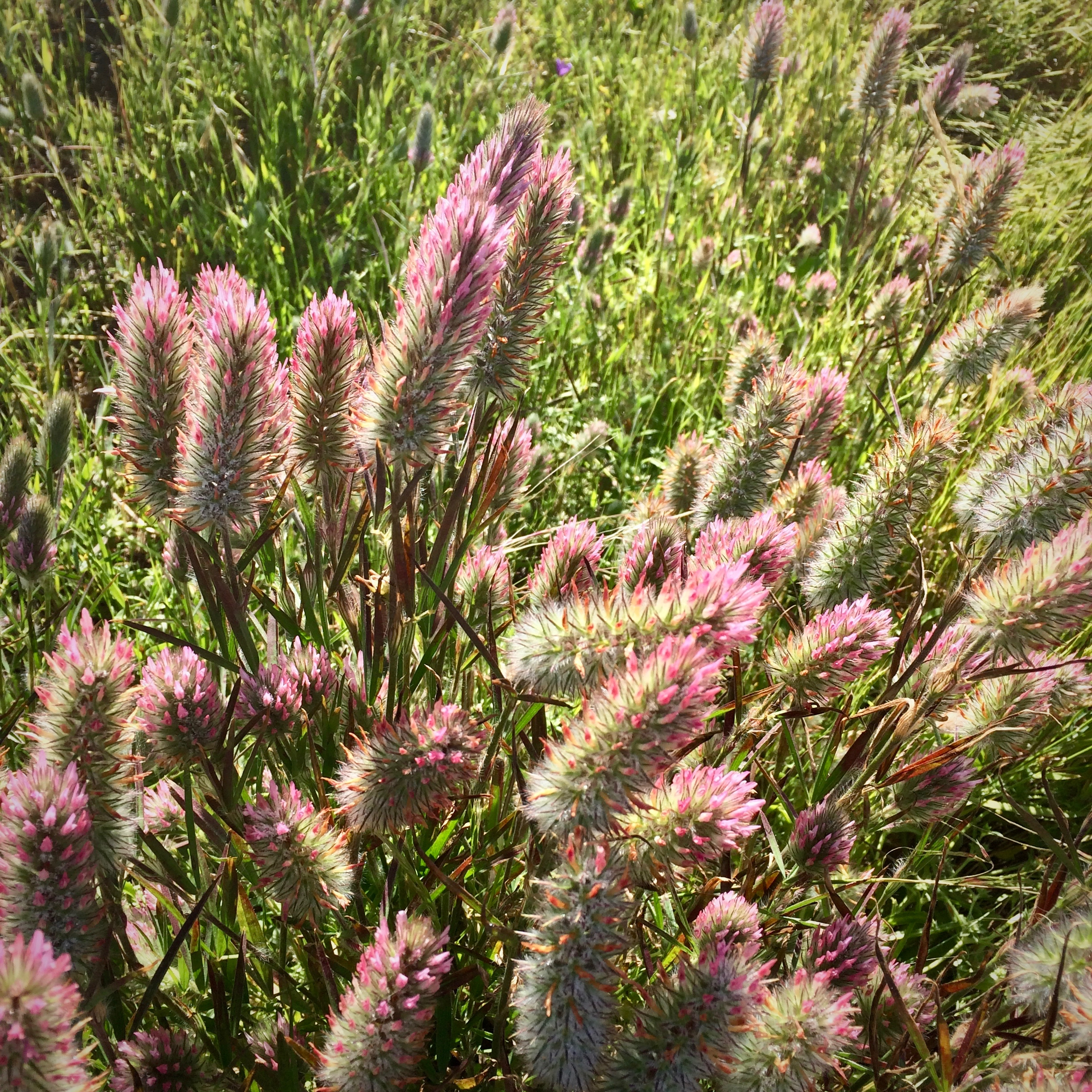 Trifolium angustifolium, roadside of CA-1 in Hearst Beach state park.